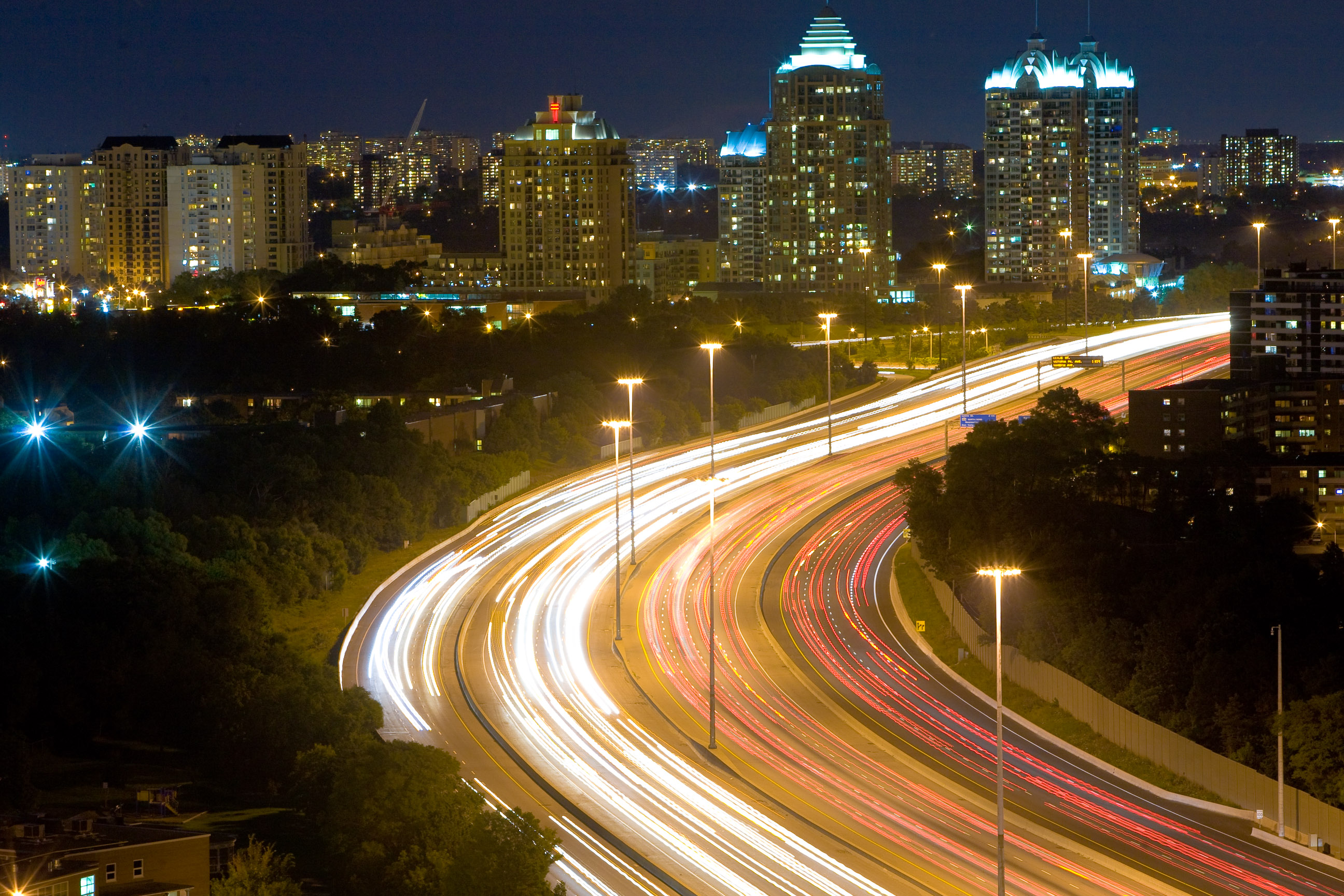 Night lapse of the 401. Even at 9:30pm, the route is still very busy.